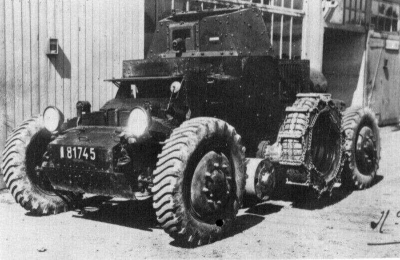 Gendron-SOMUA AMR 39 Second Prototype with 6 wheels